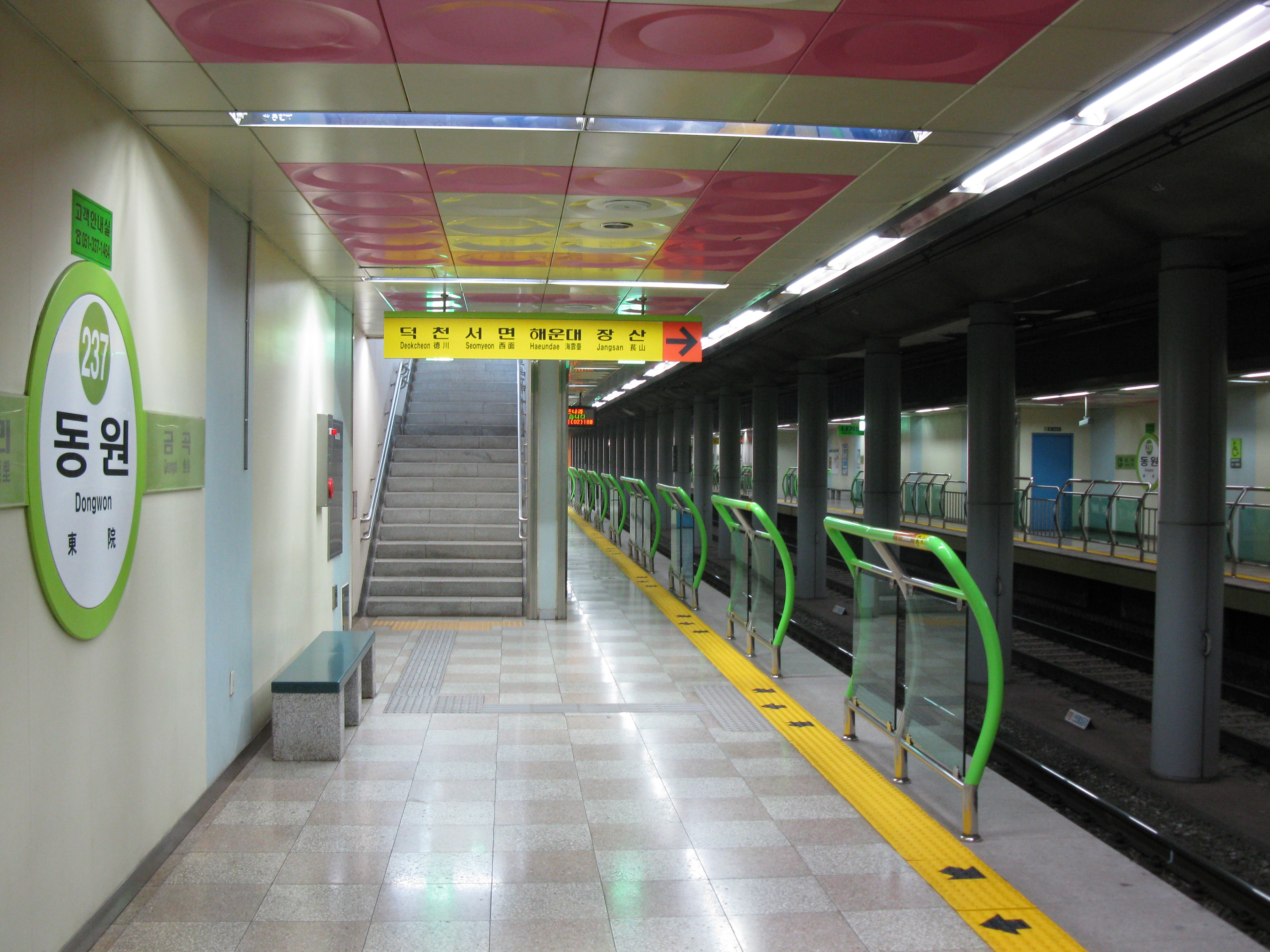 The platforms at Dongwon Station on the Busan Subway Line 2